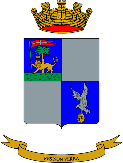 Coat of Arms of the 4° Army Aviation Support Regiment; Italian Army.